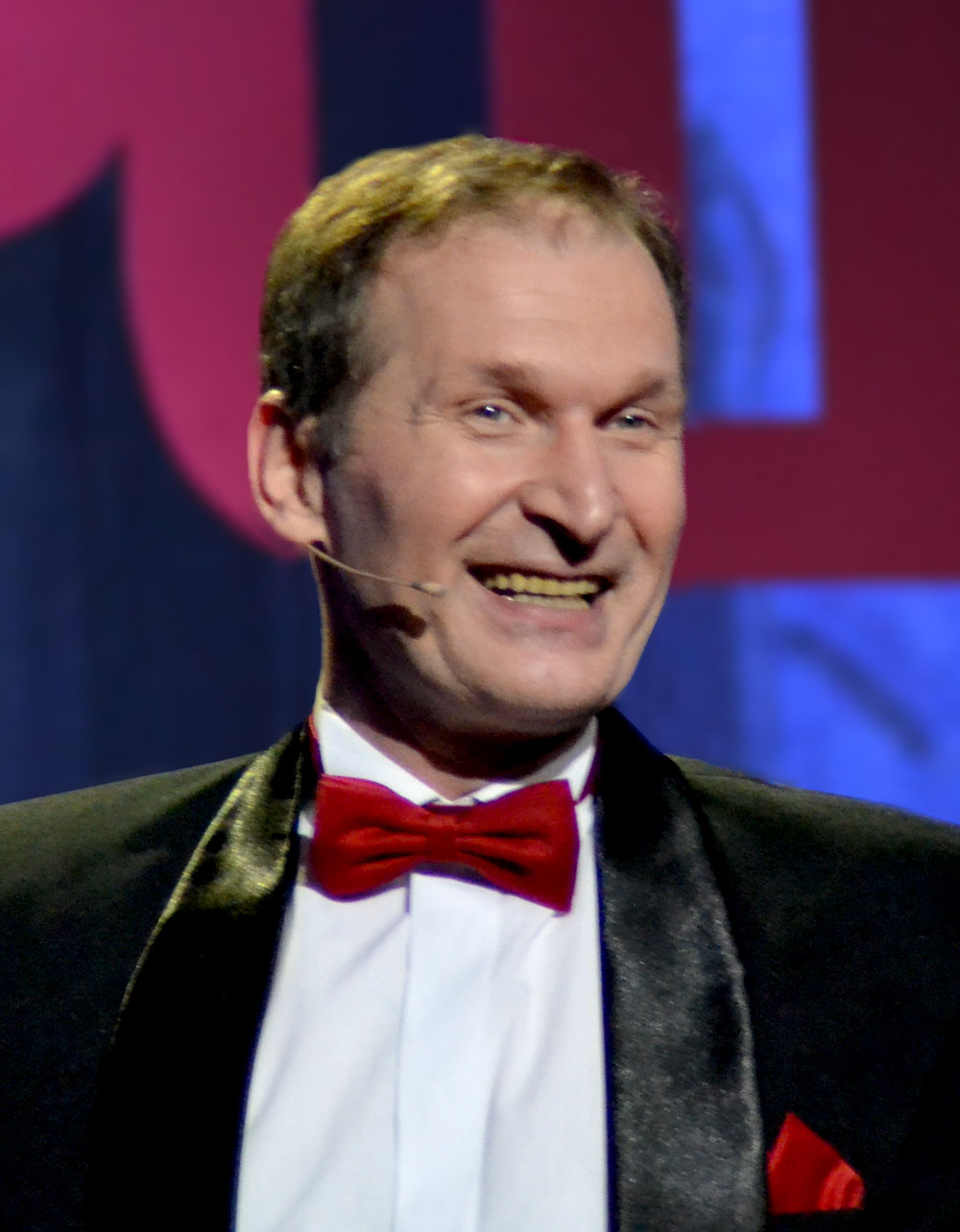 Fedor Dobronravov